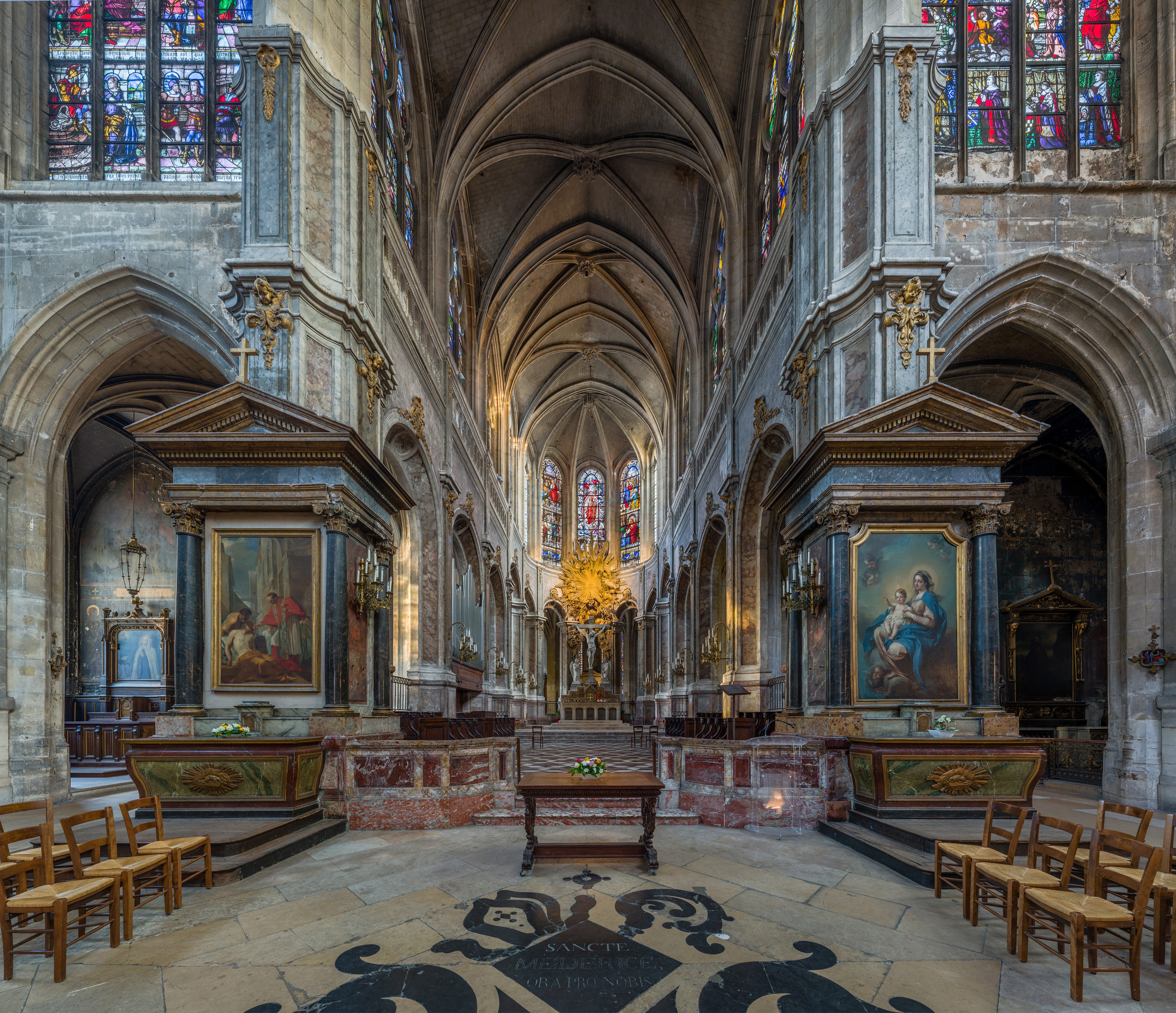 The nave of Saint Merri Church in Paris, France.